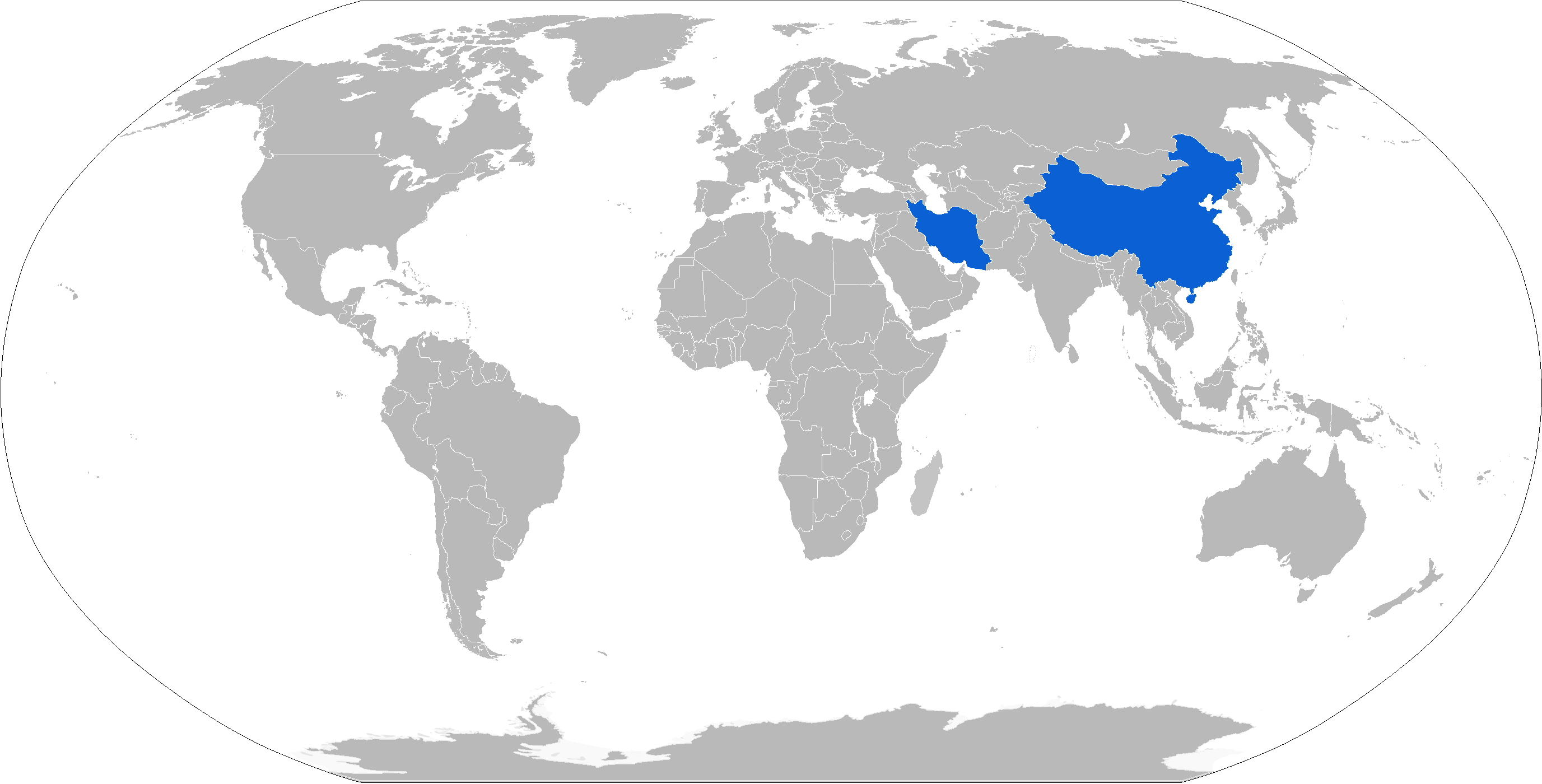 Map with TL-10 operators in blue